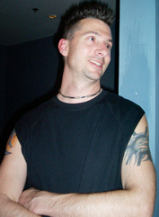 John Bechdel Ministry Fear FActory